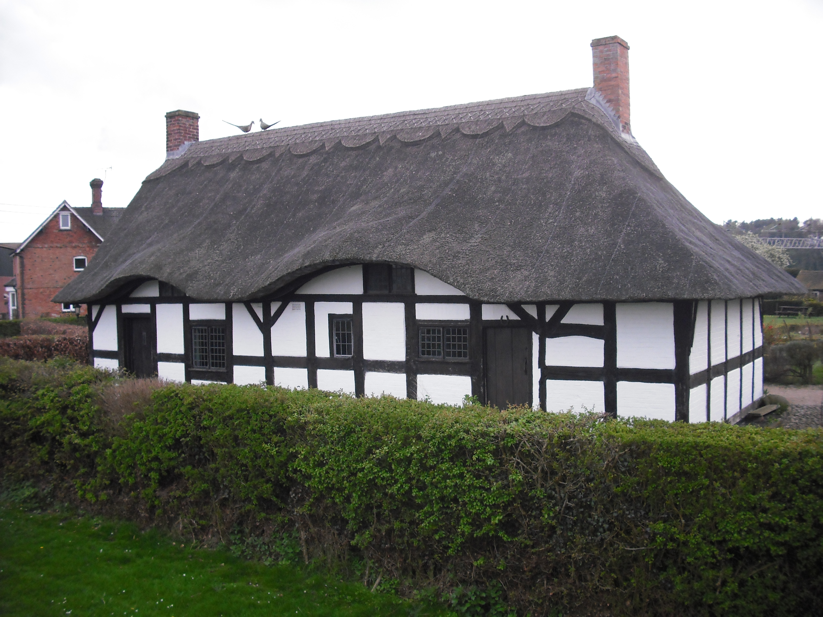 Izaak Walton's cottage at Shallowford April 2011